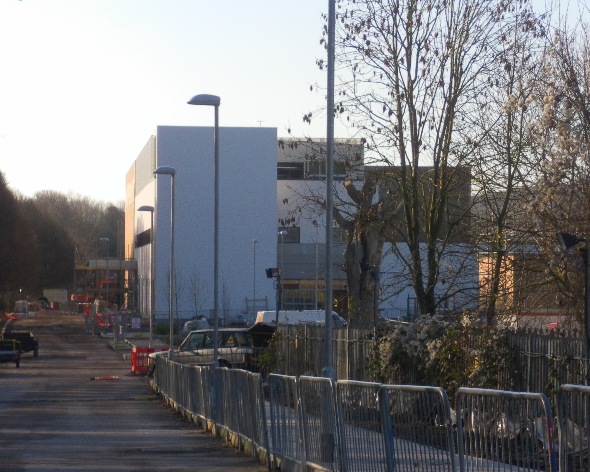 The Keep under construction in December 2012, viewed in close-up from the east from the new access road. The Keep is an archive and historical resource centre situated at Woollards Field, between Moulsecoomb and Falmer, on the edge of the City of Brighton and Hove, England. It will open in 2013 and will house East Sussex County Council's archives and records (going back over 900 years) and various other sets of historical documents and objects.